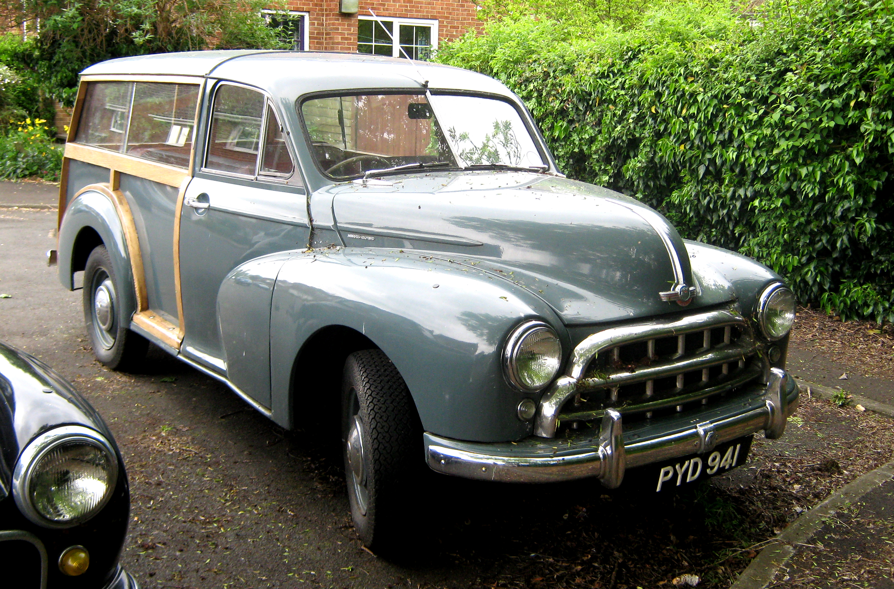 1953 Morris Oxford Traveller (DVLA) first registered 27 November 1953, 1476cc Hurworth